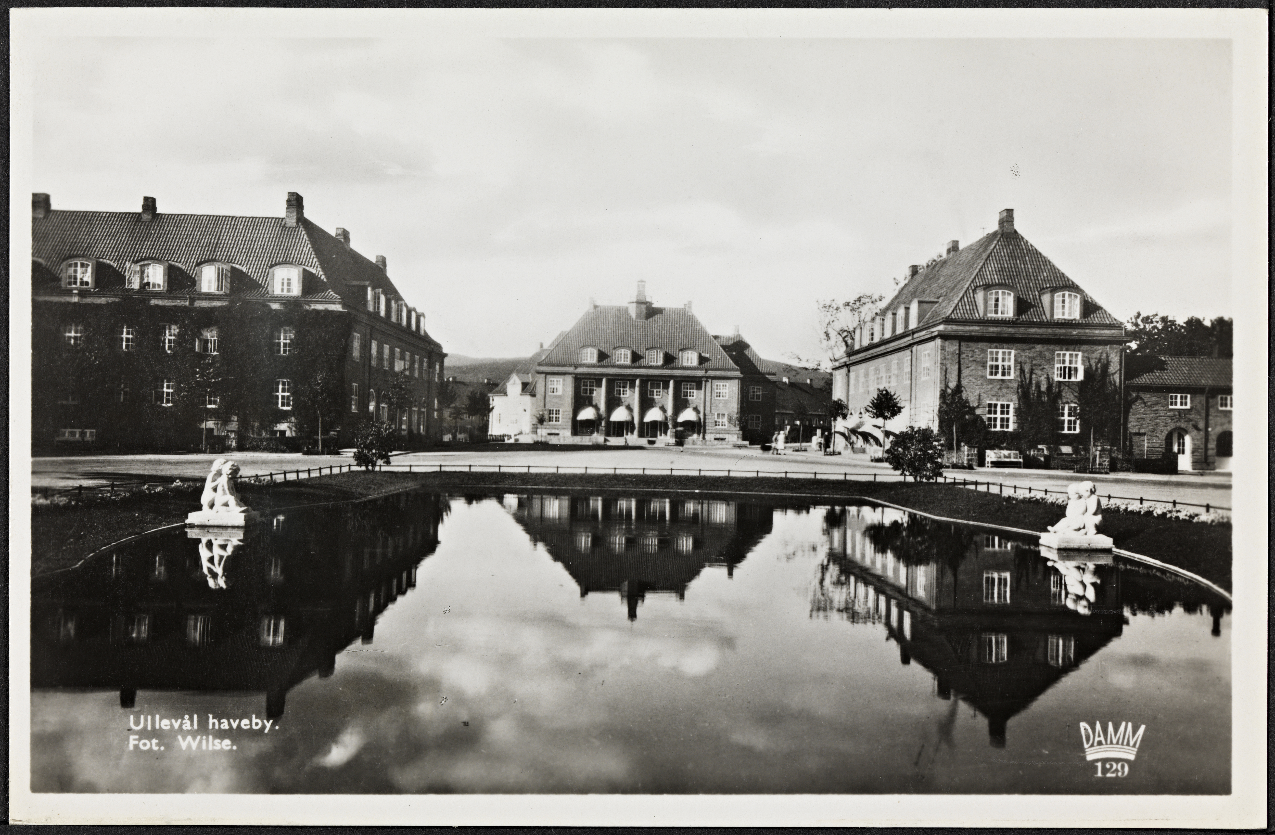 Dato / Date: ca. 1925-1930 Sted / Place: Damplassen, Oslo Fotograf / Photographer: Anders Beer Wilse (1865-1949) Digital kopi av original / Digital copy of original: sv/hv postkort, sølvgelatin Eier / Owner Institution: Nasjonalbiblioteket / National Library of Norway Lenke / Link: Bildesignatur / Image Number: bldsa_PK09173